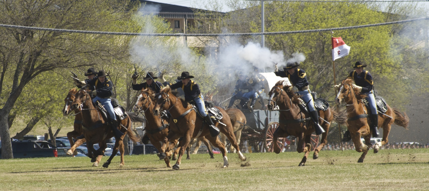 The 1st Cavalry Division's Horse Cavalry Detachment charges the parade field to end the 4th Brigade Combat Team's re-flagging ceremony at Cooper Field on Fort Hood, Texas, March 7.